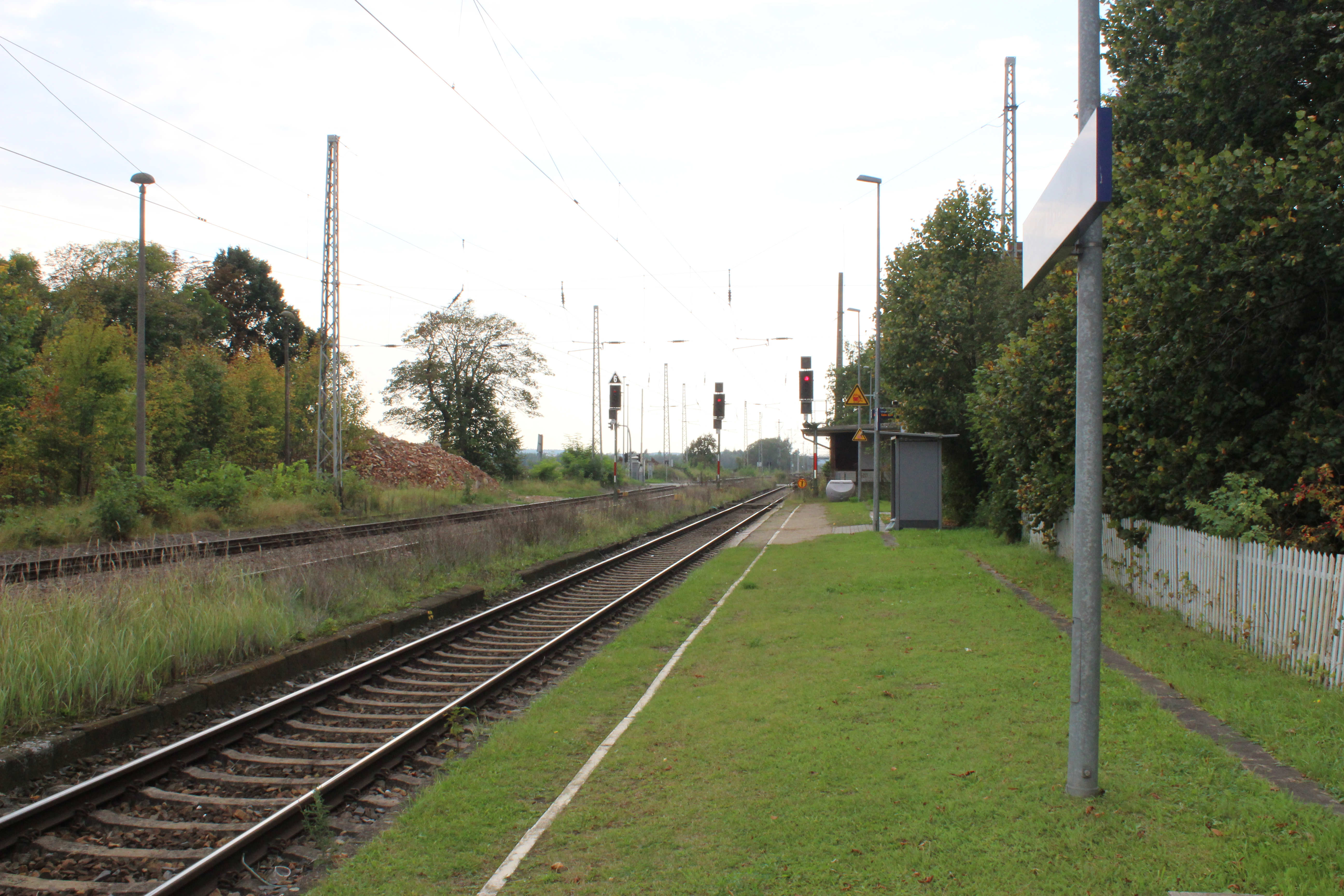 train station Passow, platforms